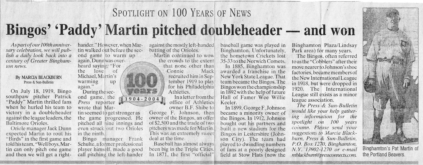 article from the Binghamton Press